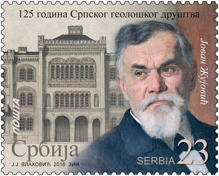 125th Anniversary of the Serbian Geological Society